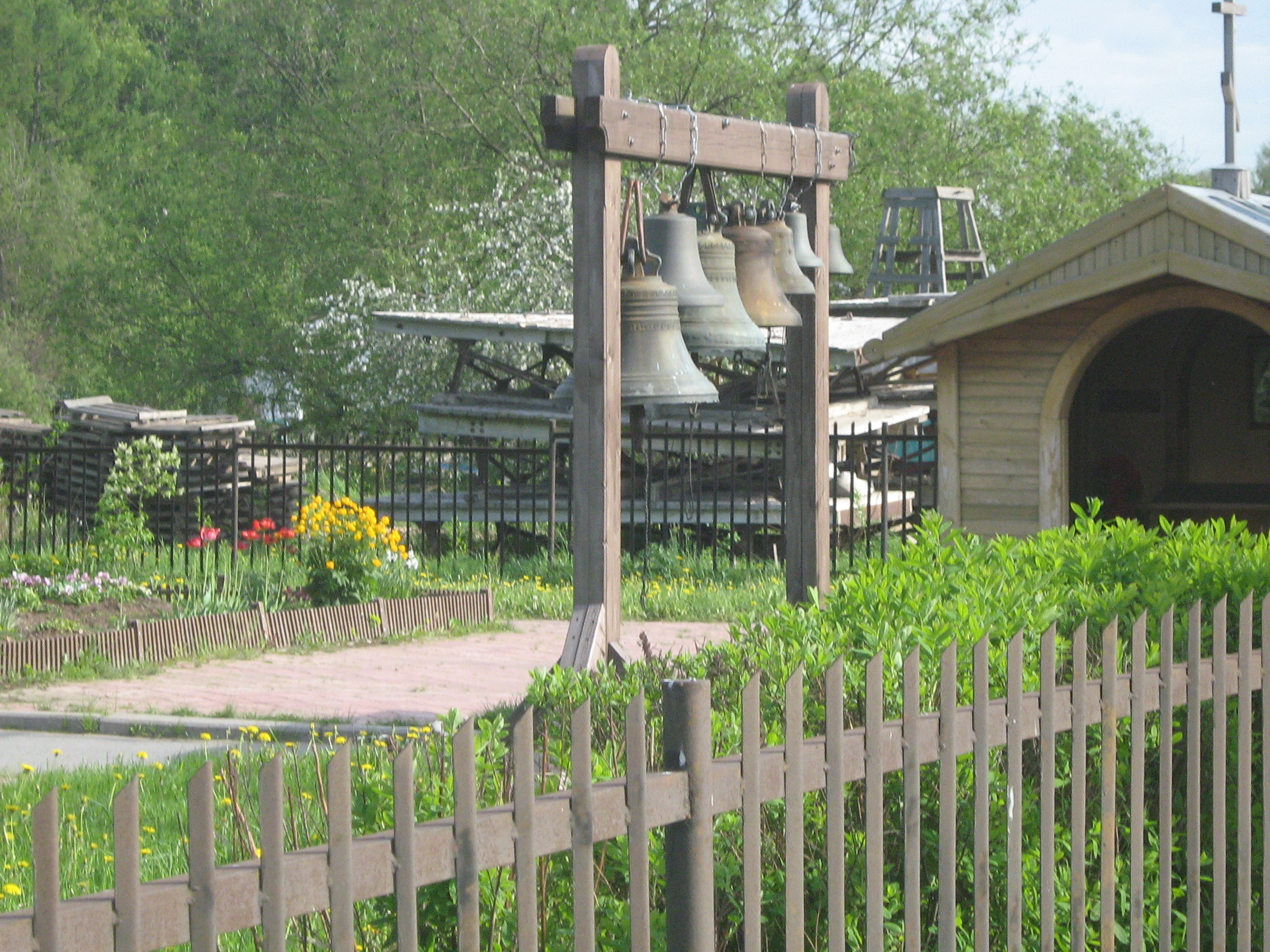 Kolpino (Russia)